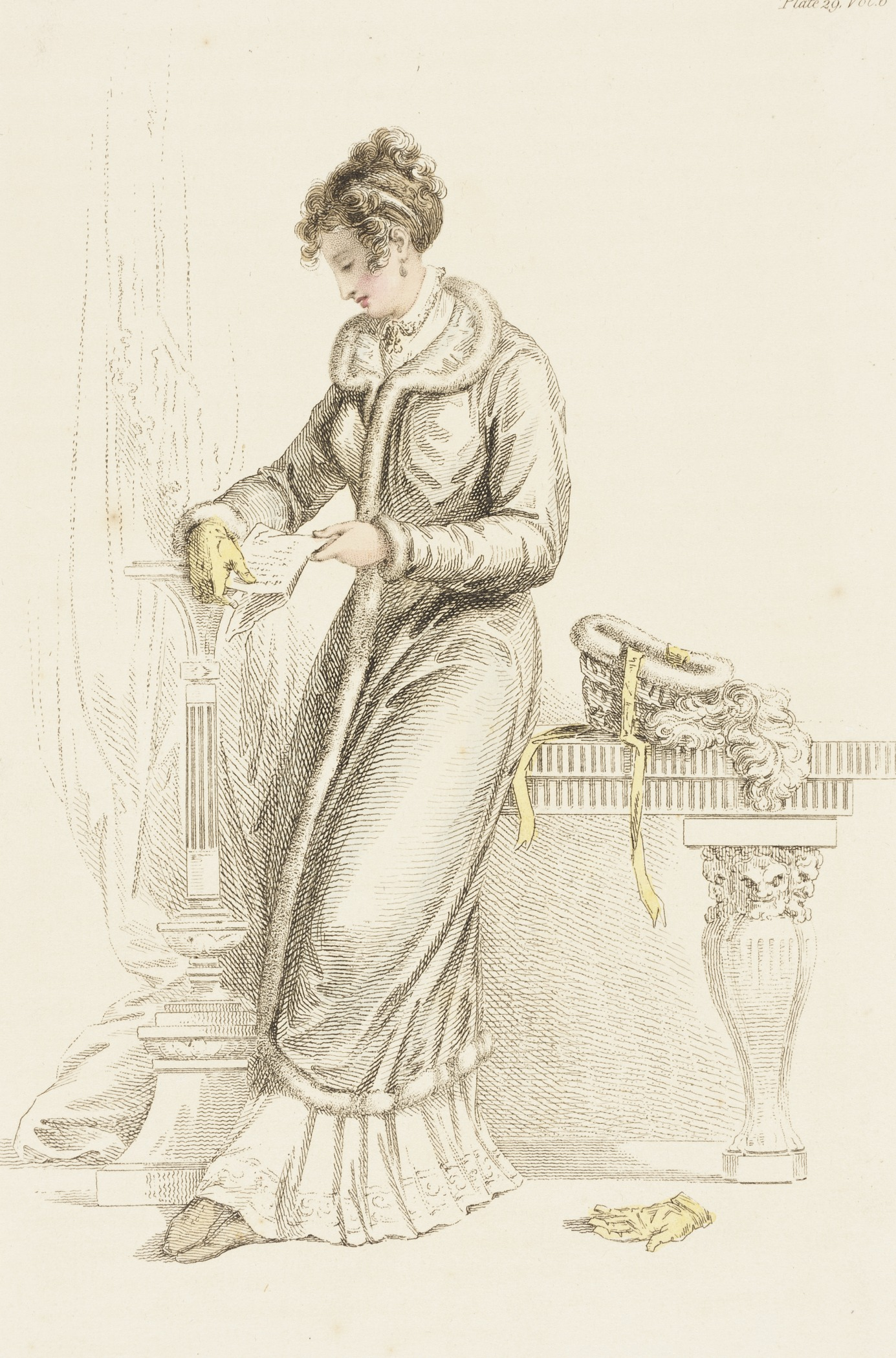 England, London, November 1, 1811 Prints; engravings Hand-colored engraving on paper Sheet: 11 x 8 1/2 in. (27.94 x 21.59 cm); Composition: 8 7/8 x 5 7/16 in. (22.54 x 13.81cm) Gift of Charles LeMaire (M.83.161.161) Costume and Textiles